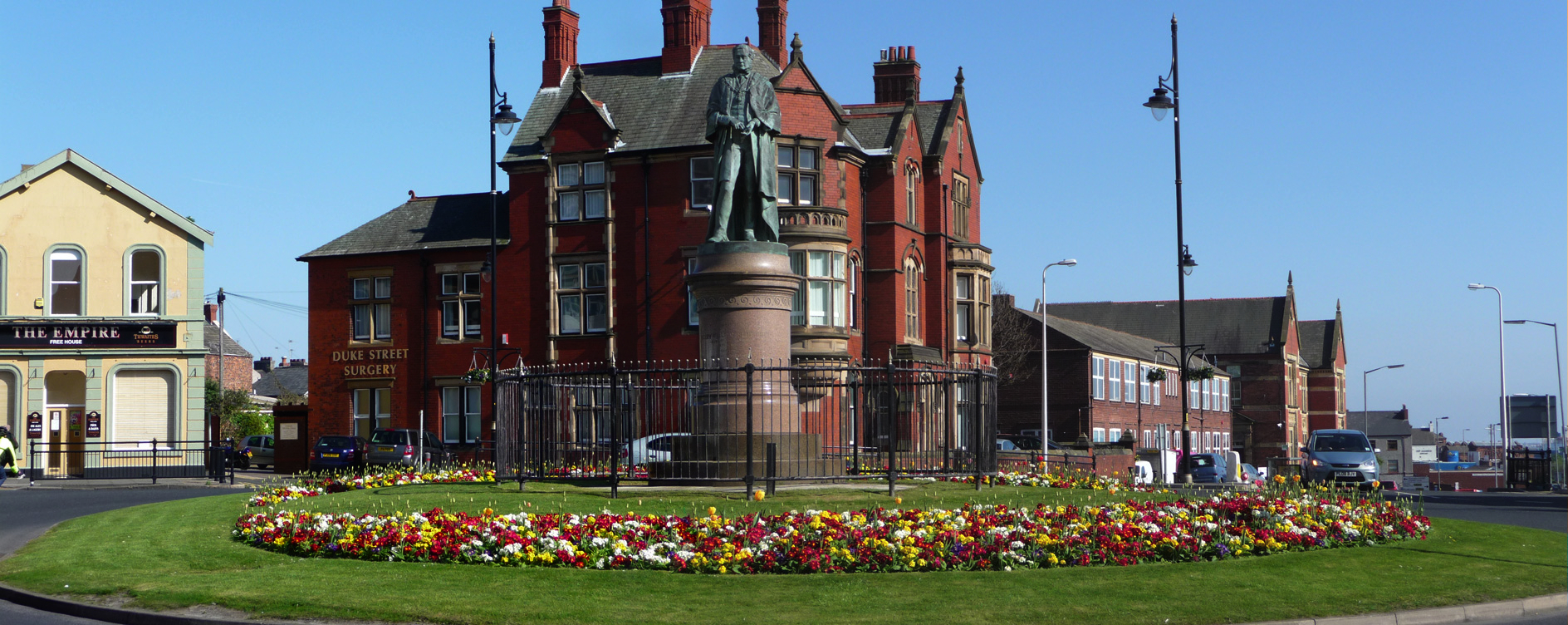 Henry Schneider Statue, Schneider Square, Barrow-in-Furness